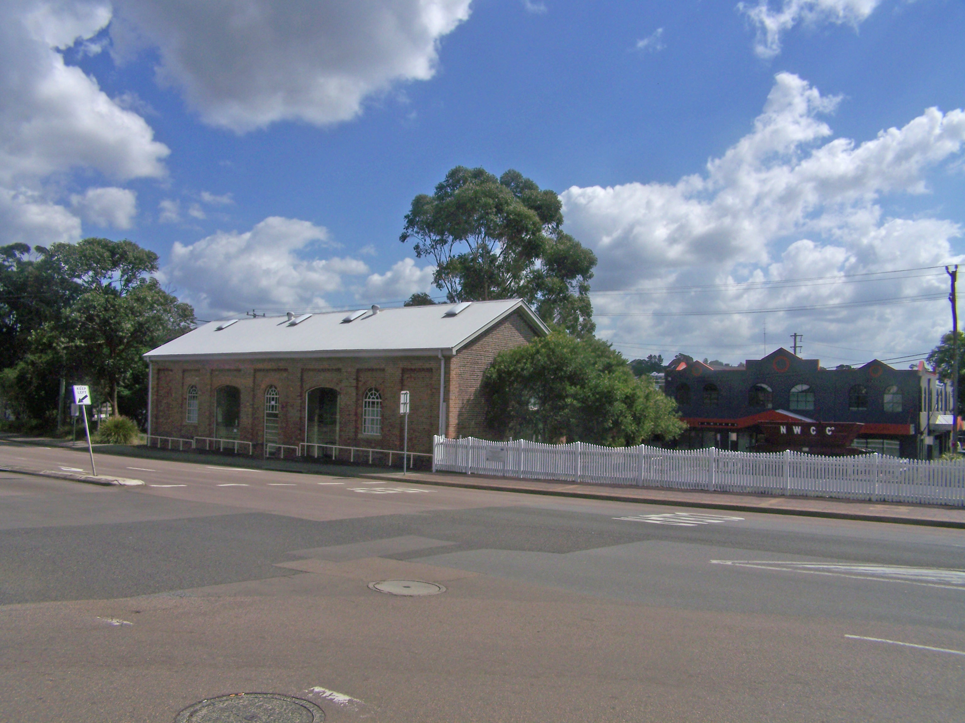 Former Railway Goods Shed located at Wallsend, Newcastle, New South Wales.